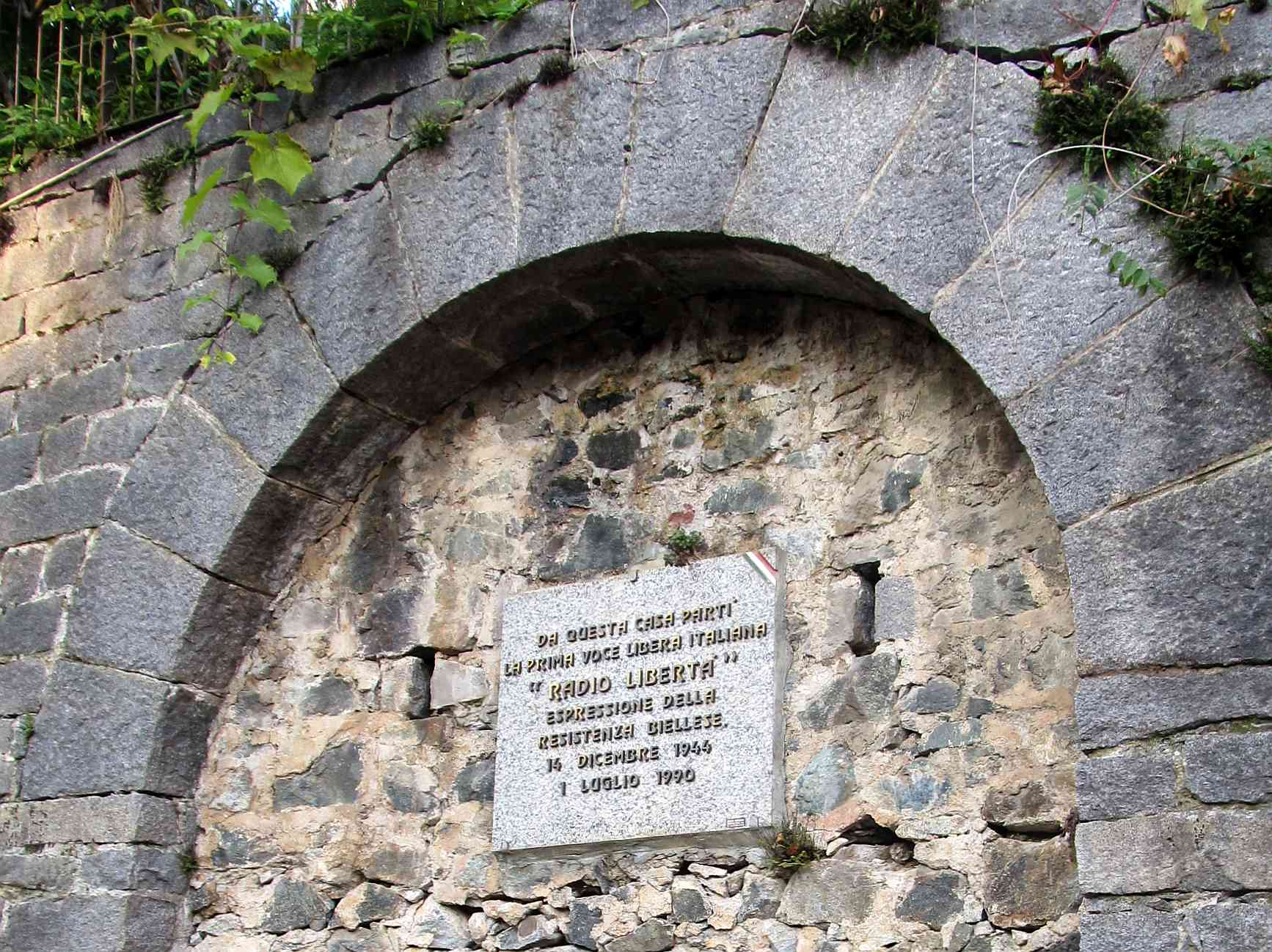 Callabiana (BI, Italy): memorial plaque devoted to Radio Libertà